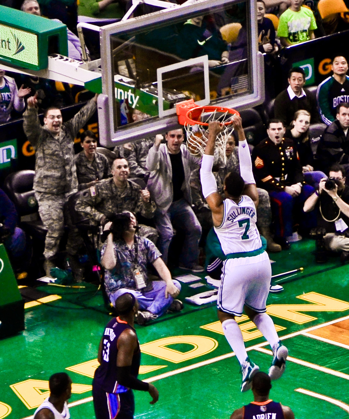 Jared Sullinger bball player